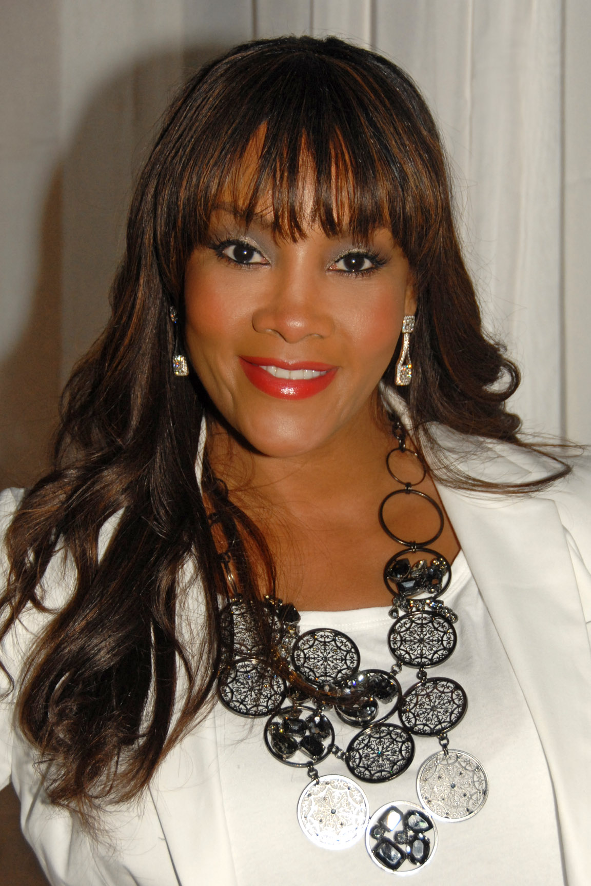 Vivica Fox, Los Angeles, California on May 22, 2010 - photo by Glenn Francis of